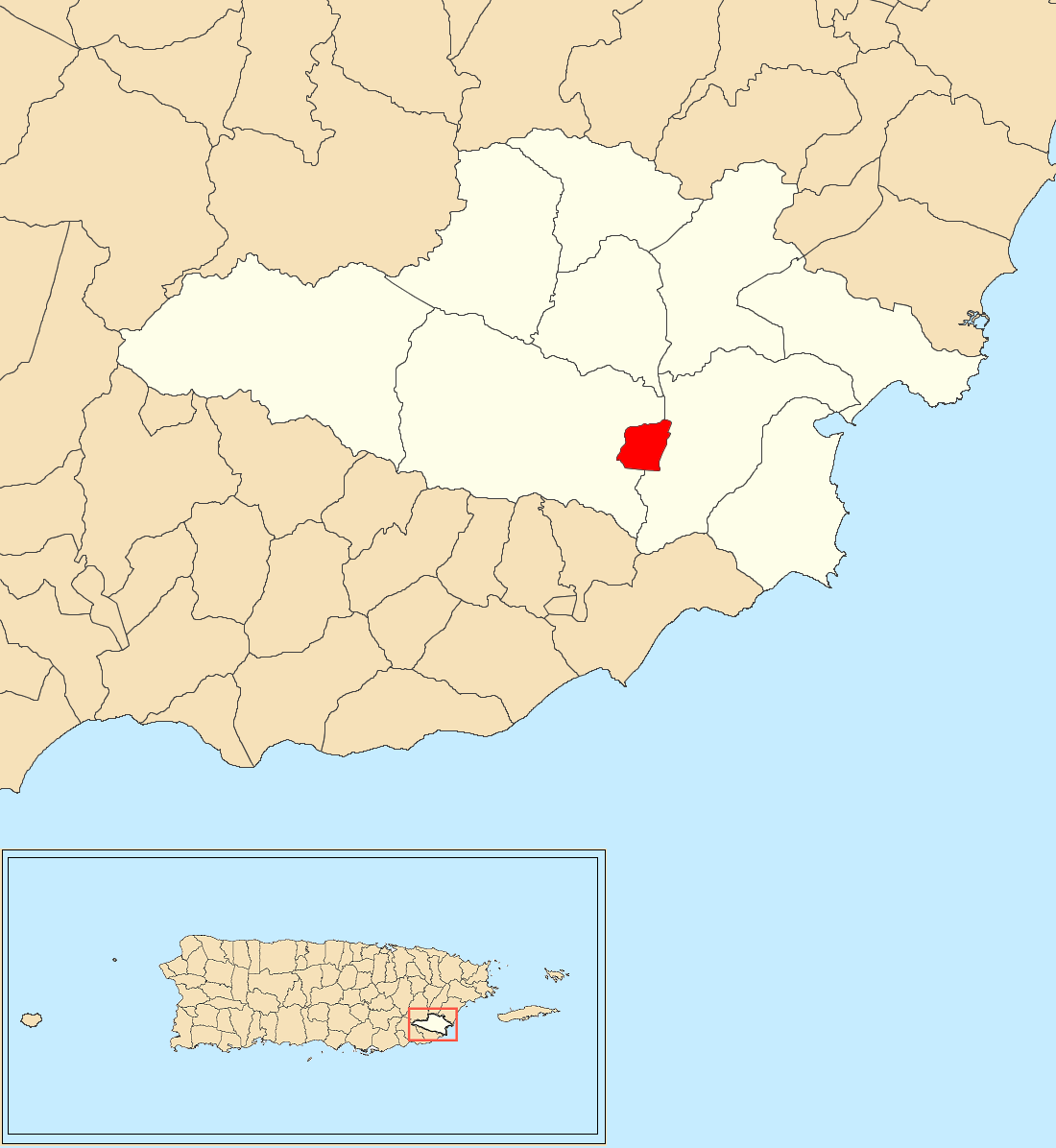 Yabucoa barrio-pueblo, Yabucoa, Puerto Rico locator map